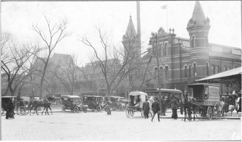 Original Caption: Photograph of Center Market taken from the Corner of C and 9th Streets Northwest, 04/02/1914 U.S. National Archives’ Local Identifier: 83-G-3138A From: Photographic Prints Documenting Programs and Activities of the Bureau of Agricultural Economics and Predecessor Agencies, compiled ca. 1922 - ca. 1947, documenting the period ca. 1911 - ca. 1947 Created By: Department of Agriculture. Bureau of Agricultural Economics. Division of Economic Information. (ca. 1922 - ca. 1953) Production Date: 04/02/1914 Persistent URL: Repository: National Archives at College Park - Still Pictures (RD-DC-S) For information about ordering reproductions of photographs held by the Still Picture Unit, visit: Reproductions may be ordered via an independent vendor. NARA maintains a list of vendors at